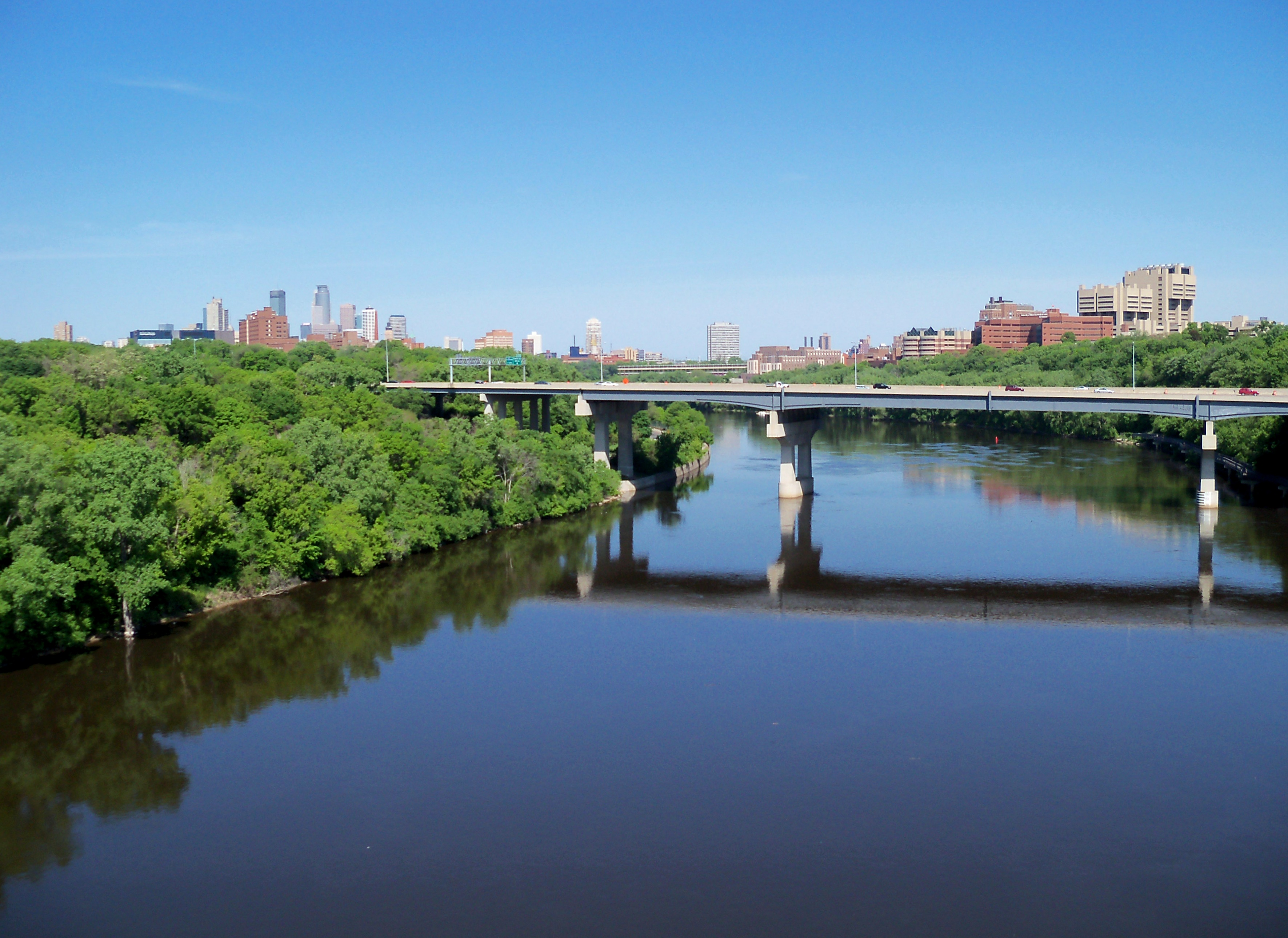 Dartmouth (I-94) Bridge over the Mississippi River in Minneapolis, Minnesota, USA.